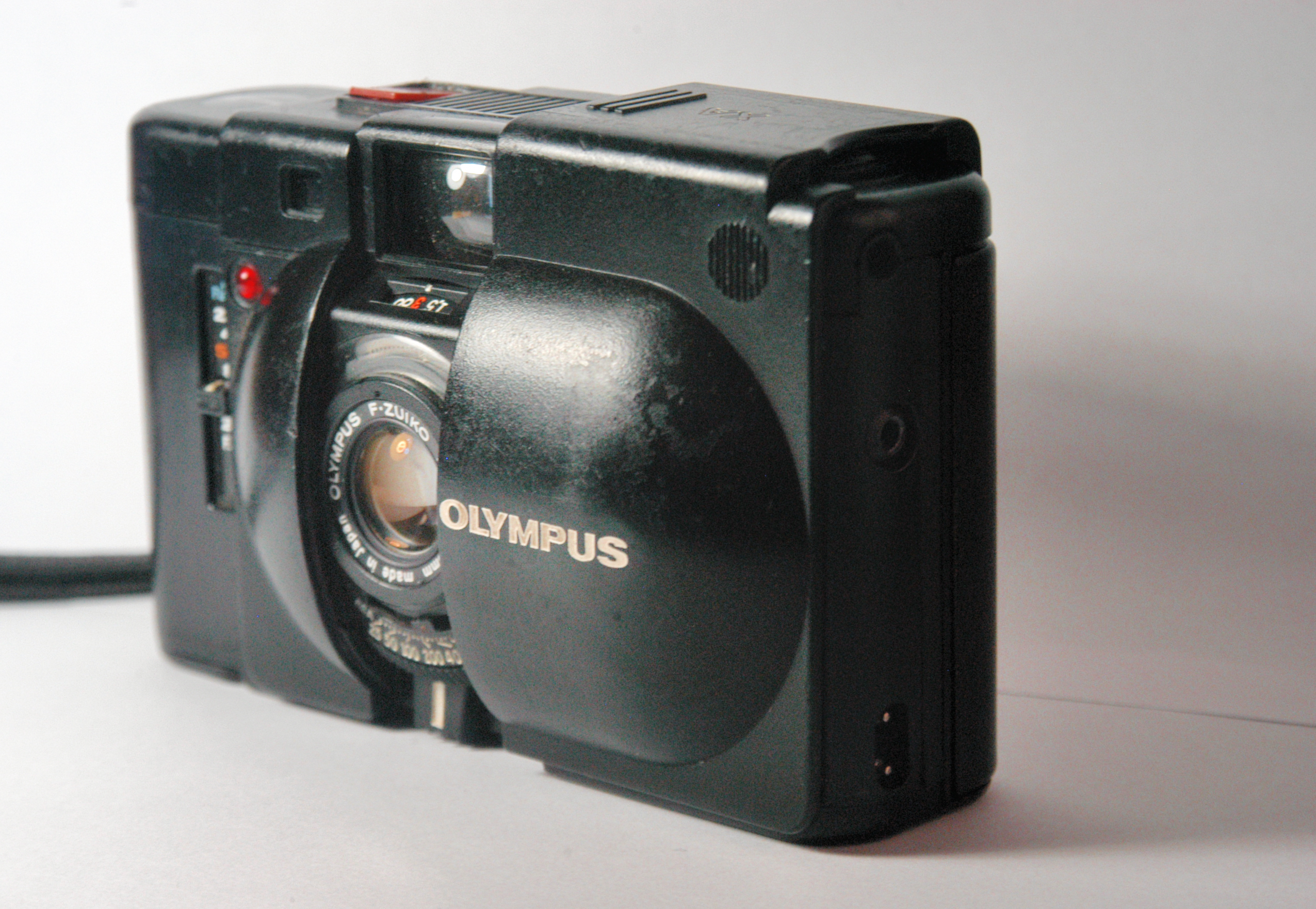 Olympus XA